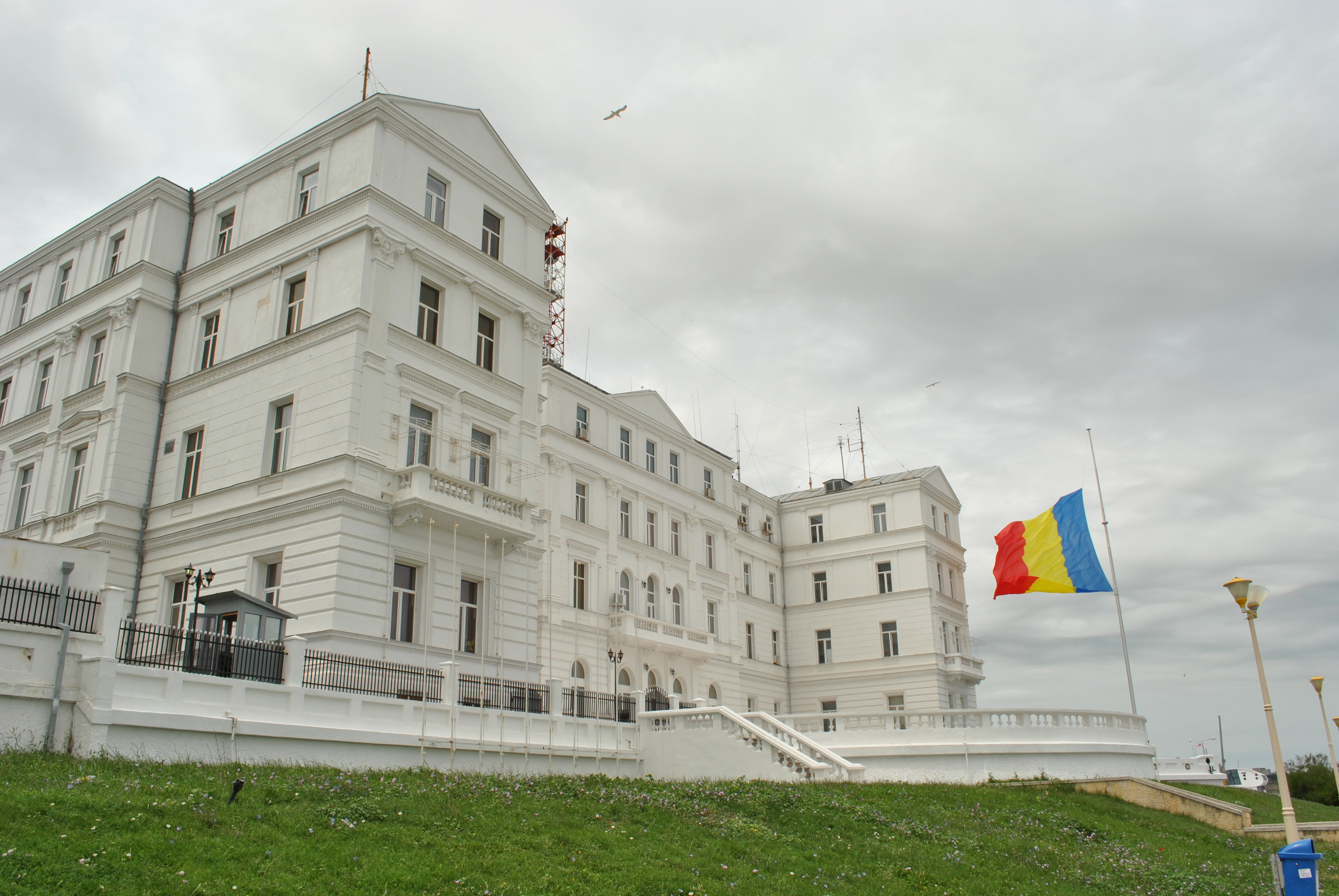 The Romanian Navy Fleet Command building in Constanta.